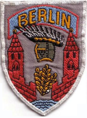 Coat of arms of a Bundeswehr unit.